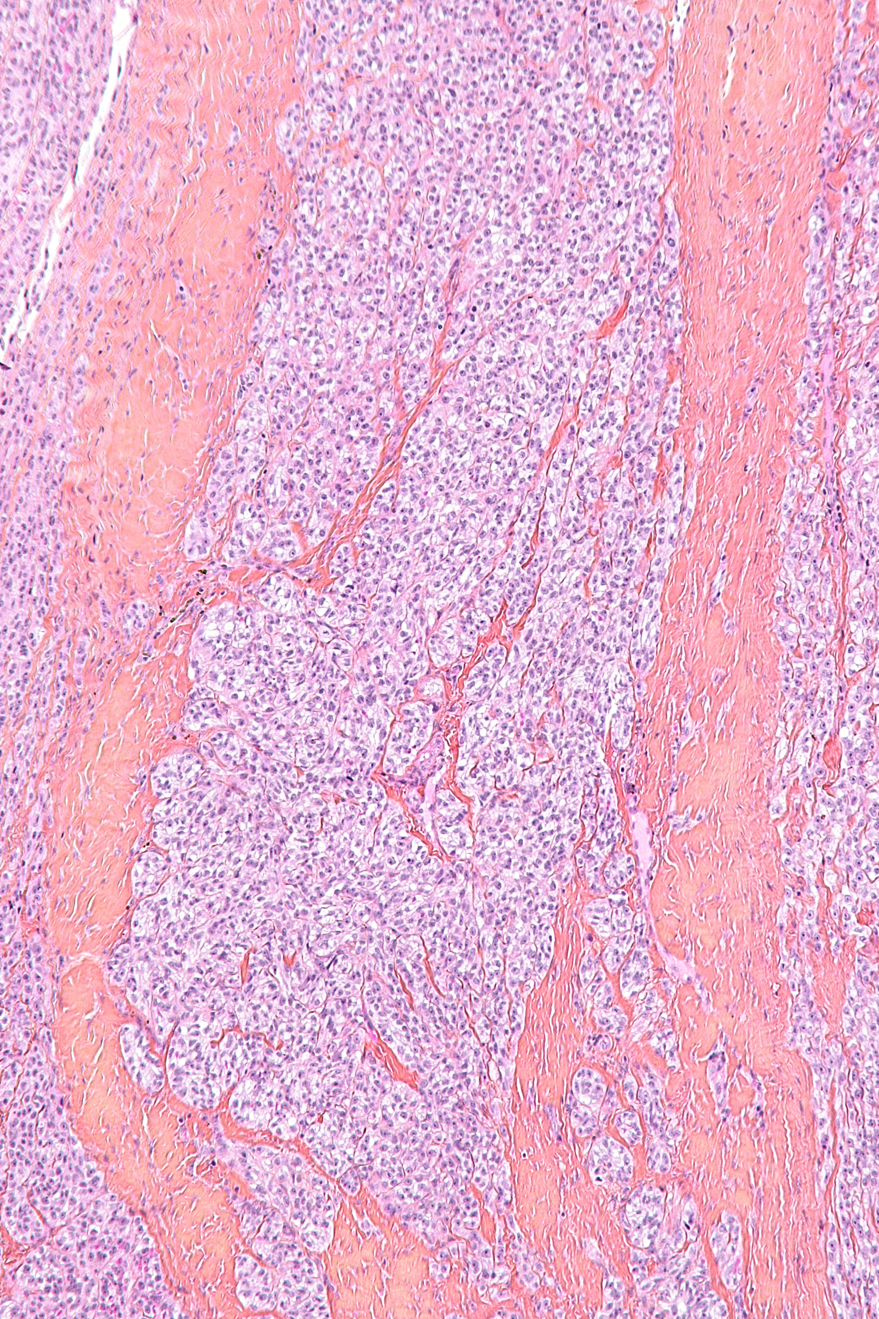 Intermediate magnification micrograph of a clear cell sarcoma in a tendon. It is also known as melanoma of the soft parts, due to its morphologic similarity to malignant melanoma. HPS stain. Clear cell sarcoma has a similar immunohistochemistry when compared to melanoma; however, unlike melanoma, it has a recurrent chromosomal translocation between EWSR1 and ATF1 -- t(12;22)(q13;q12).[1] It should not be confused with clear cell sarcoma of the kidney, a pediatric kidney tumour second only in prevalence to nephroblastoma (Wilms tumour). Related images Intermed. mag. High mag. Very high mag. References ↑ Hisaoka M, Ishida T, Kuo TT, et al. (March 2008). "Clear cell sarcoma of soft tissue: a clinicopathologic, immunohistochemical, and molecular analysis of 33 cases". Am. J. Surg. Pathol. 32 (3): 452–60. PMID 18300804.